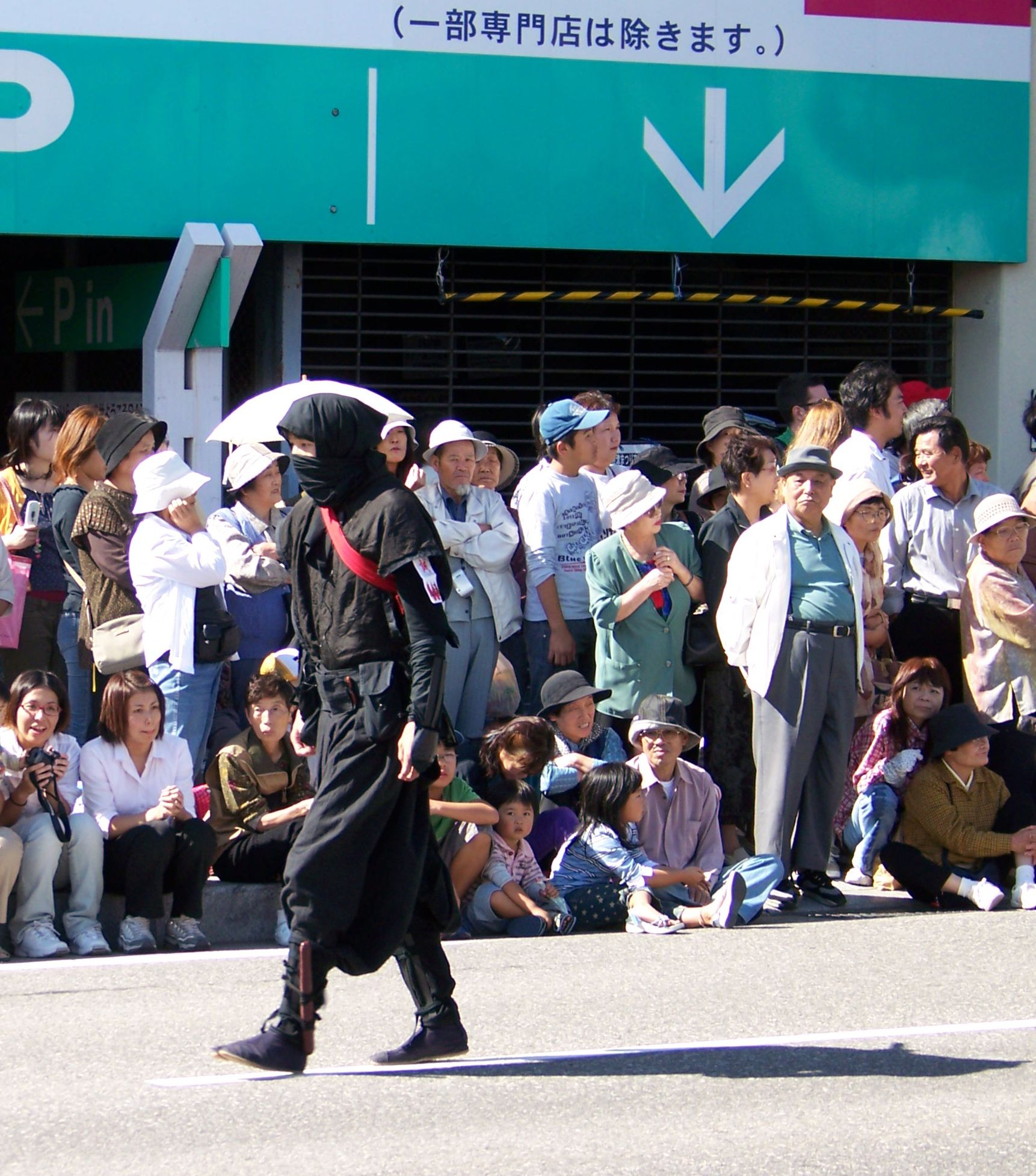 Ninja in the 2006 Aizu Clan Parade in Aizu-Wakamatsu, Fukushima Prefecture, Japan. Photo by uploader. Taken 27 September 2006.